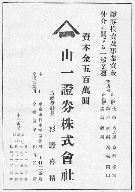 Yamaichi Securities advertisement in 1930s